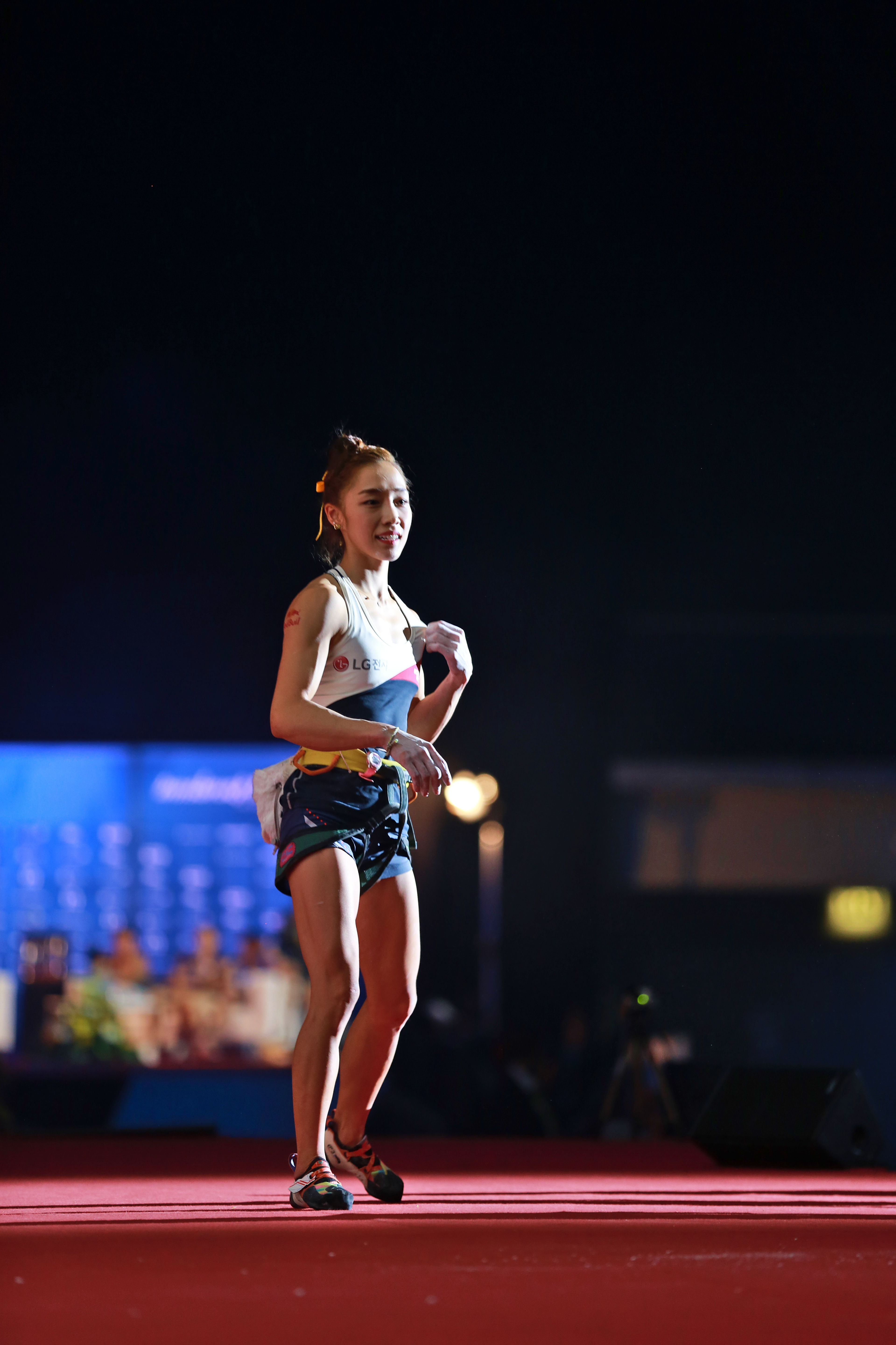 IFSC Climbing World Championships Innsbruck 2018 Final WOMAN lead 80 KIM Jain KOR